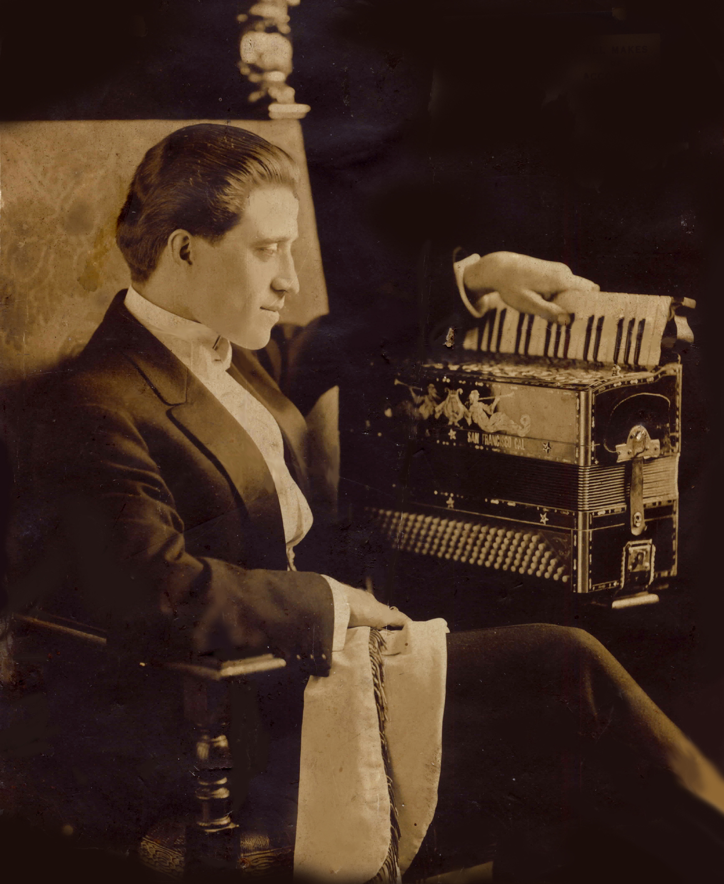 Count Guido Pietro Deiro, c. 1919, an Italian-American Accordionist